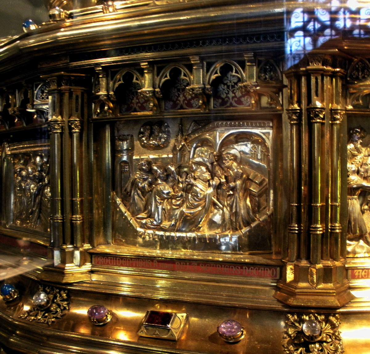 Neo-Gothic pedestal of the reliquary bust of Saint Servatius by August Witte, (Aachen, 1908). Detail of one of 8 reliefs depicting Saint Servatius receiving in Rome the keys of heaven from Saint Peter. Maastricht, the Netherlands, Treasury of the Basilica of Saint Servatius. The original reliefs are in the Museum für Kunstgewerbe in Hamburg.